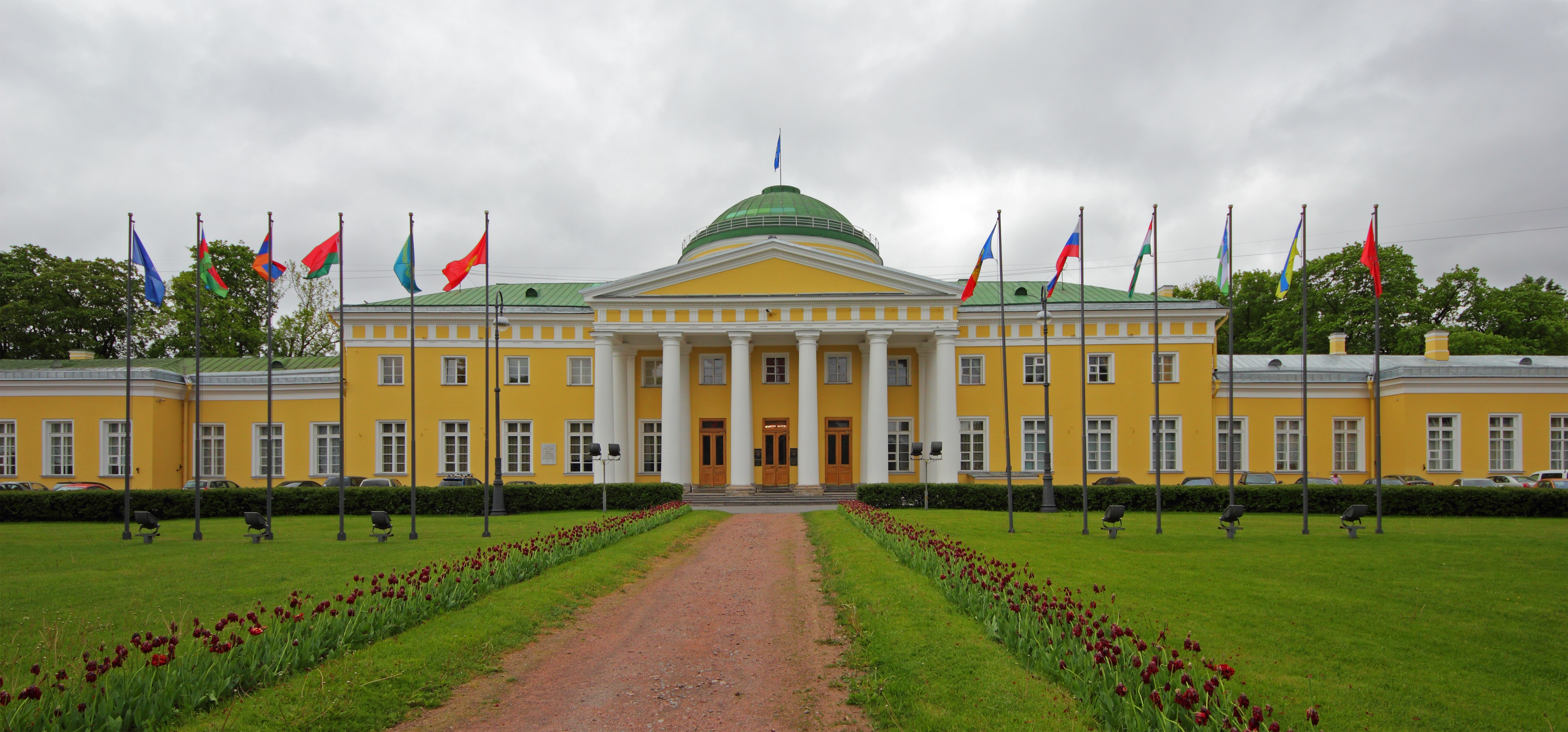 Saint Petersburg, Russia. Tauride Palace.